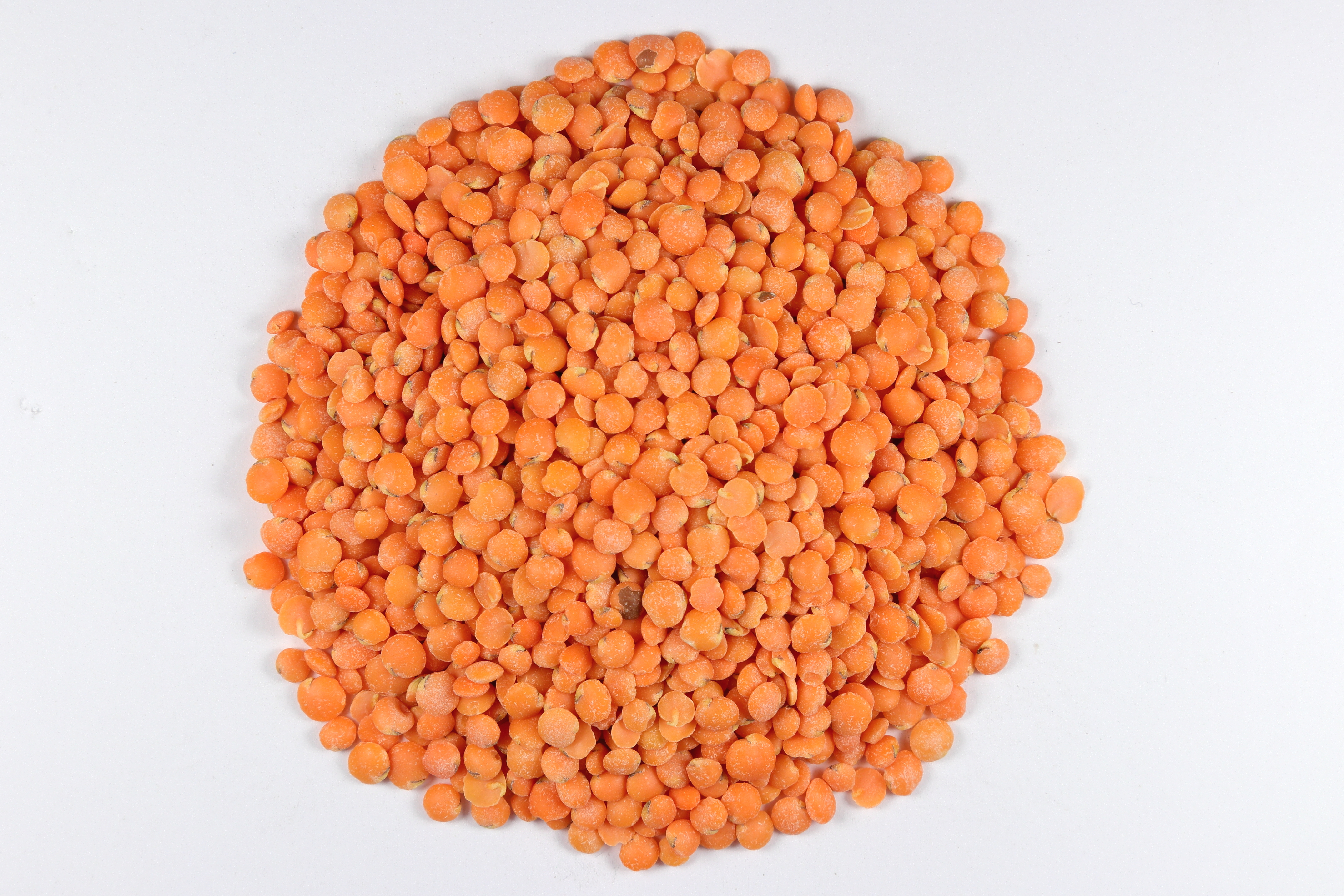 Picture of Split Red Lentil seeds. Size is approximately 6mm.